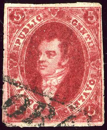 Stamp of Argentina, 5 C issue 1864, carmine, irregular perforation. Rivadavia (1780-1845). Used (not identified). Michel 11.